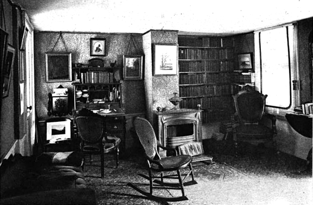 Photo of American poet John Greenleaf Whittier's study at his home in Amesbury, Massachusetts. Scanned from The Works of John Greenleaf Whittier: illustrated with steel portraits and photogravures by John Greenleaf Whittier, edited by Elizabeth Hussey Whittier. Published by Houghton, Mifflin and Company, 1892. Item notes: v. 7